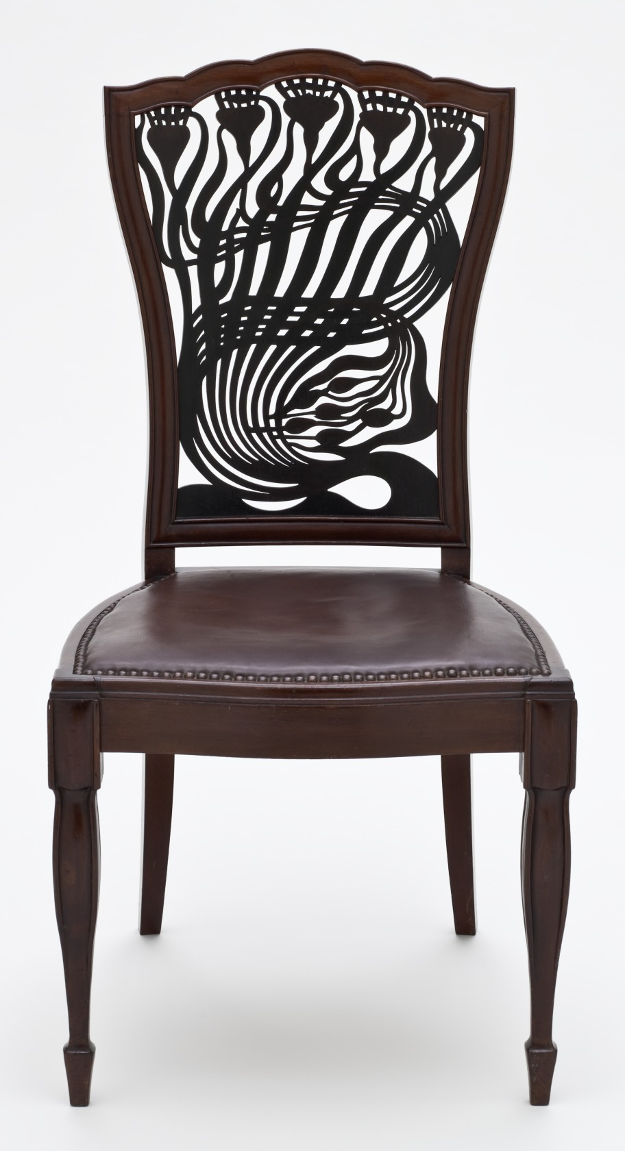 England, circa 1883 Furnishings; Furniture Mahogany The Los Angeles County Museum of Art and The Huntington Library, Art Collections, and Botanical Gardens, purchased jointly with funds provided by MaryLou Boone, Max Palevsky and Jodie Evans, the Decorative Arts and Design Council, the Frances Crandall Dyke Bequest, and the Schweppe Art Acquisitions Fund (M.2009.115) Decorative Arts and Design